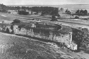 Battery San Antonio of Fort Barrancas (Pensacola Bay/Florida)